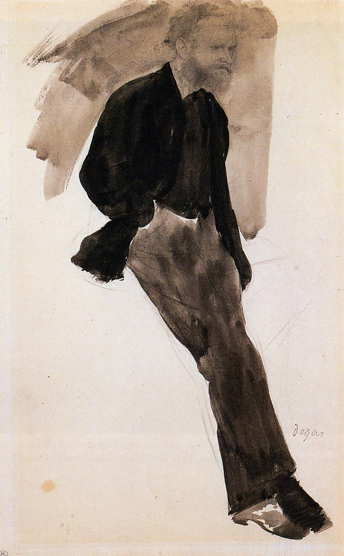 Edgar Degas, Portrait of Edouard Manet standing.